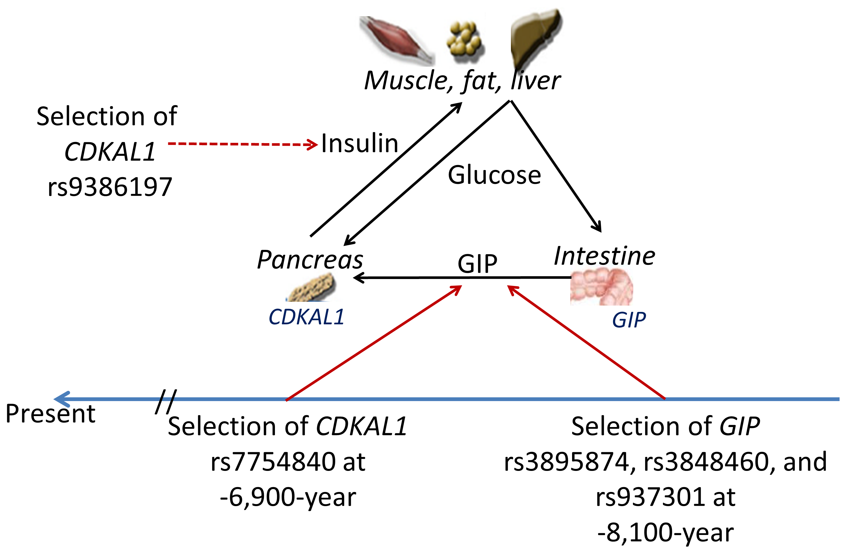 This file is a schematic of the relationship of Glucose, GIP, and CDKAL1 in different organs related to Type II diabetes.